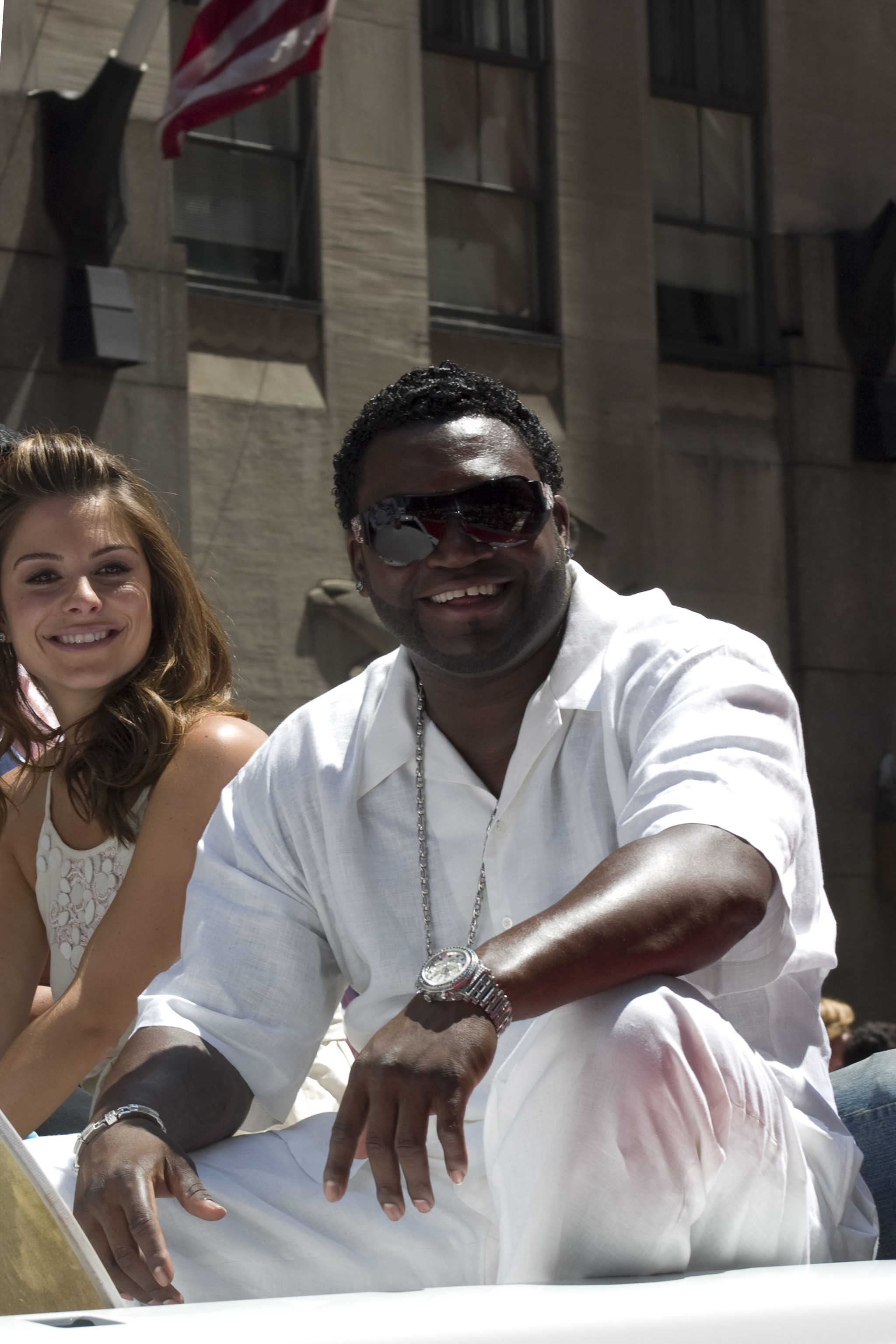 David Ortiz. © Rubenstein, photographer Martyna Borkowski